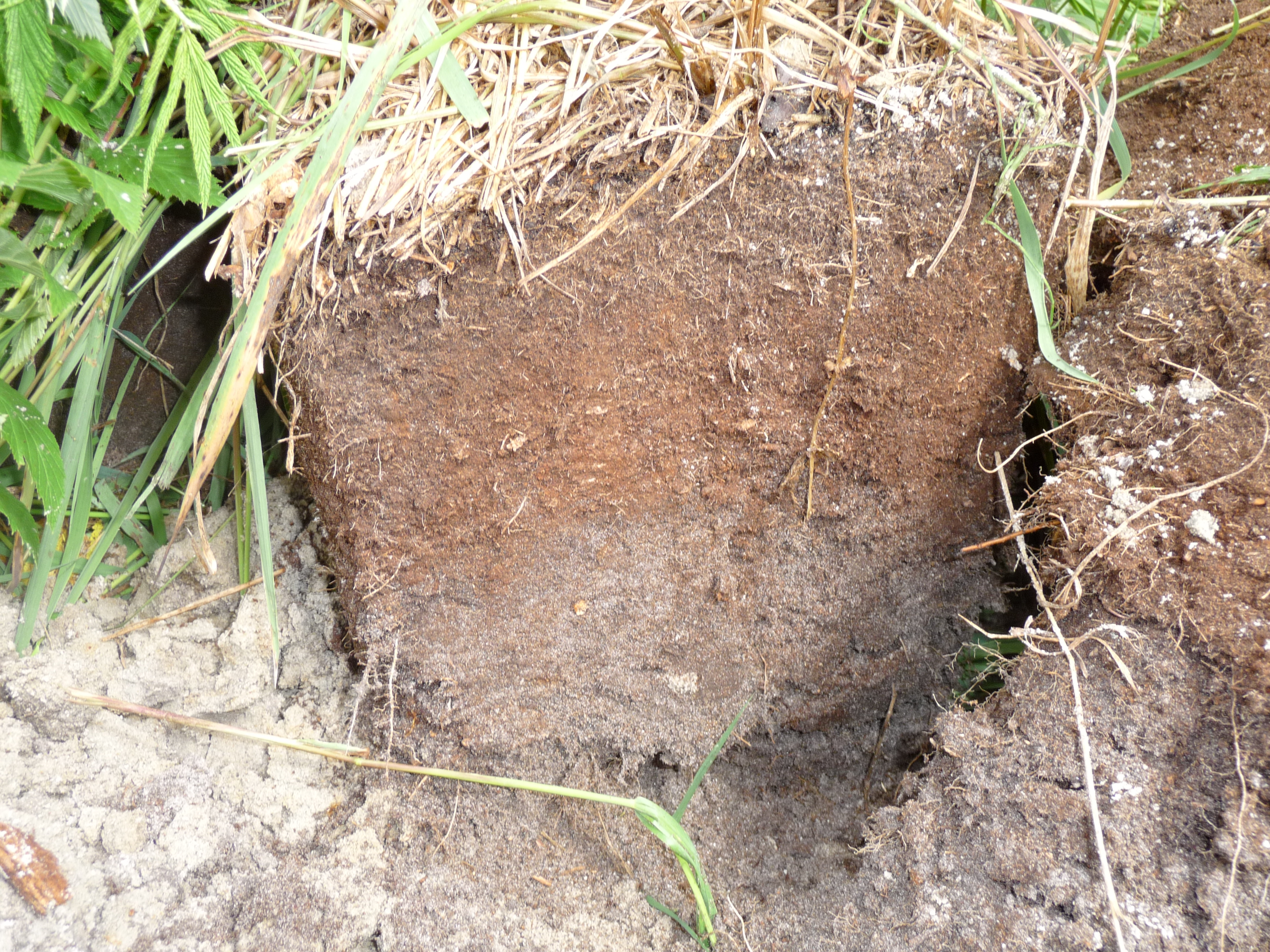 Peat